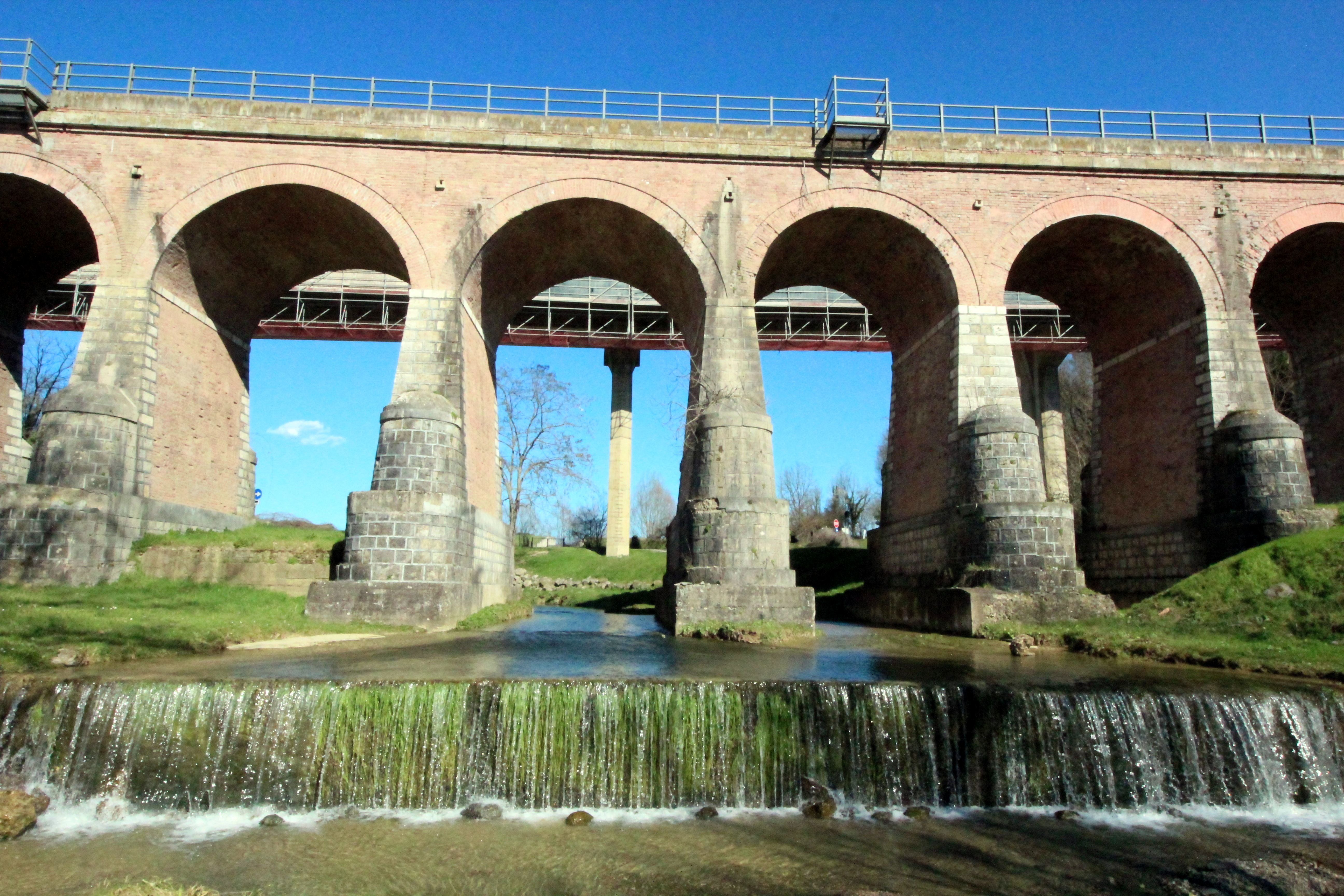 Railway Bridge Ponte Ottarchi, Bridge over the Staggia River (Elsa) in Badesse, hamlet of Monteriggioni, Province of Siena, Tuscany, Italy